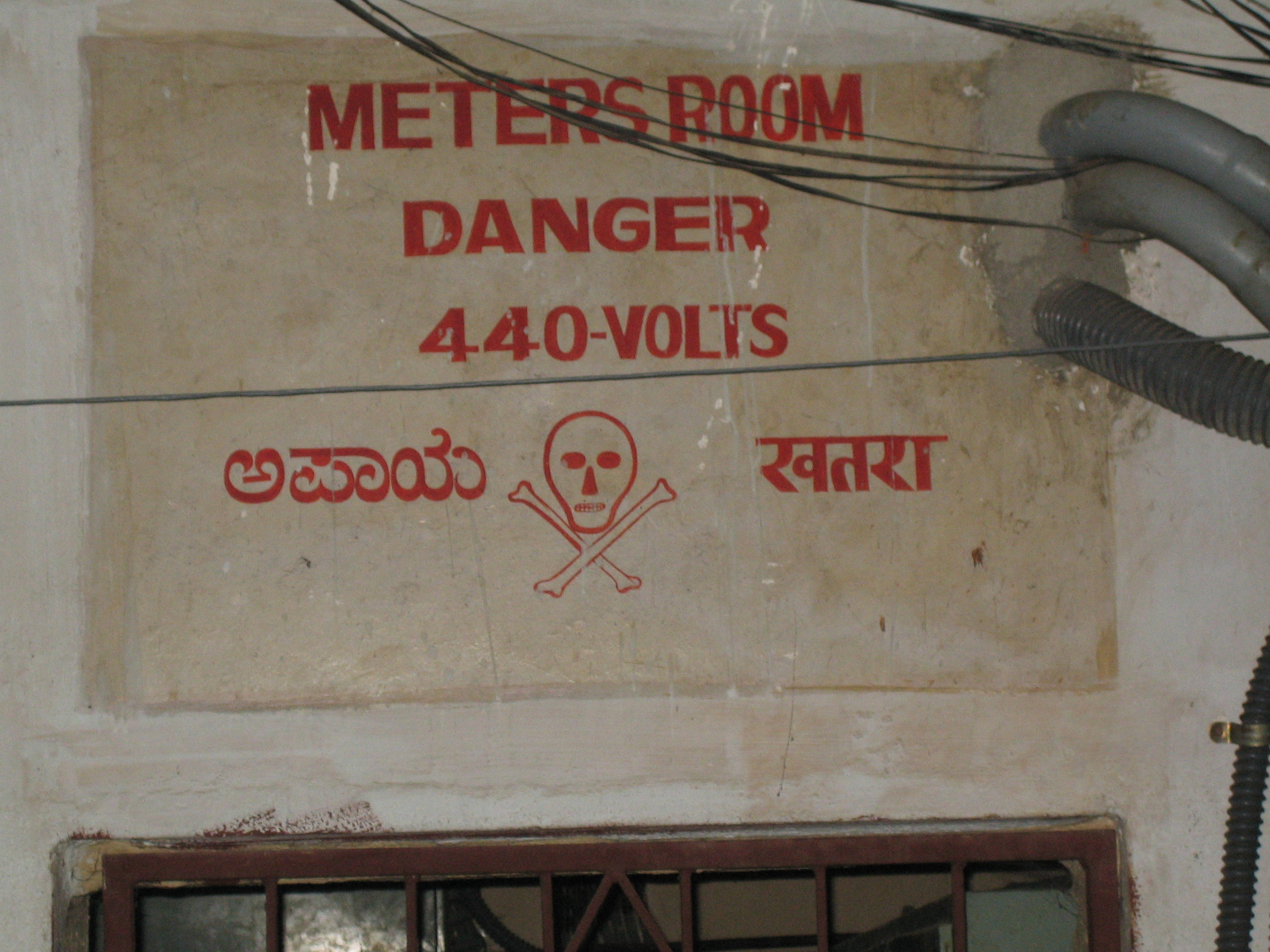 Photo of a warning message posted in English, Kannada and Hindi at the entrance of a electric power meter room in Bangalore.